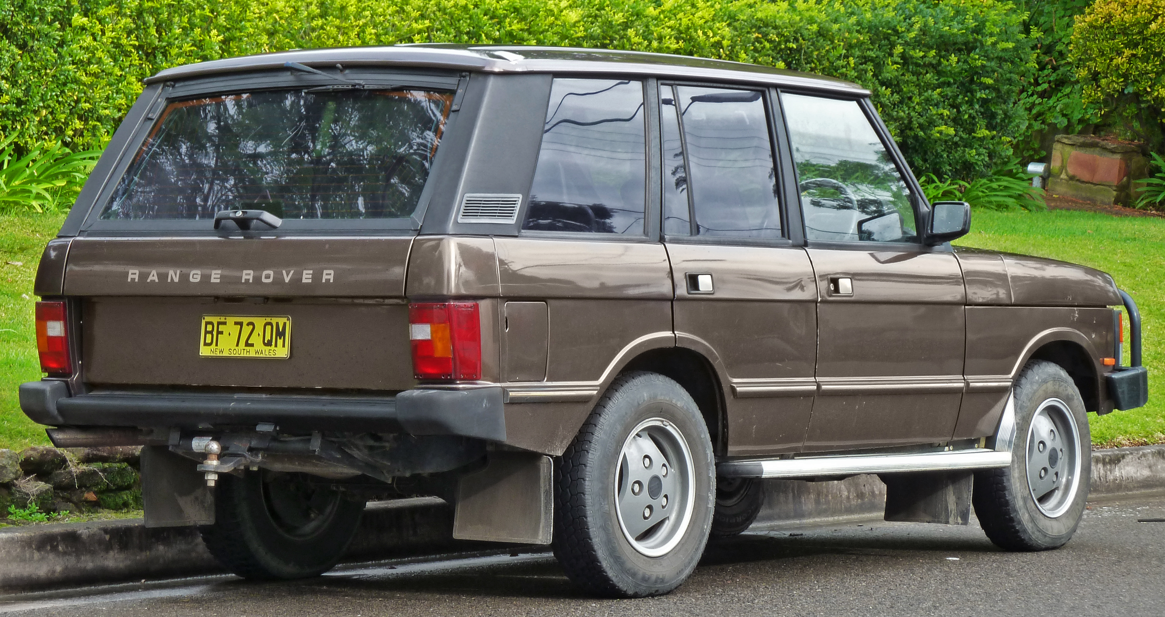 1989 Land Rover Range Rover 5-door wagon. Photographed in Killara, New South Wales, Australia. Note: the concealed front door hinges from May 1989 (source).